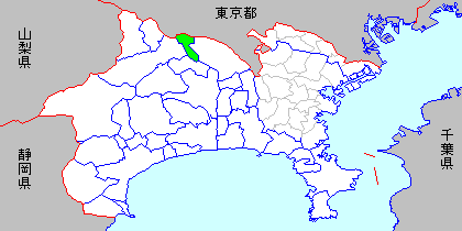 Map of former Shiroyama Town, Kanagawa prefecture, Japan (now part of Sagamihara city)